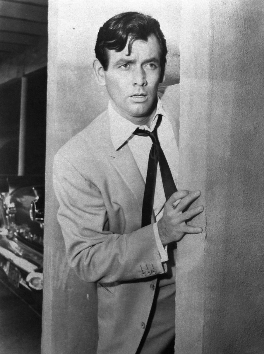 Photo of David Janssen as Richard Diamond from the television program Richard Diamond, Private Detective.